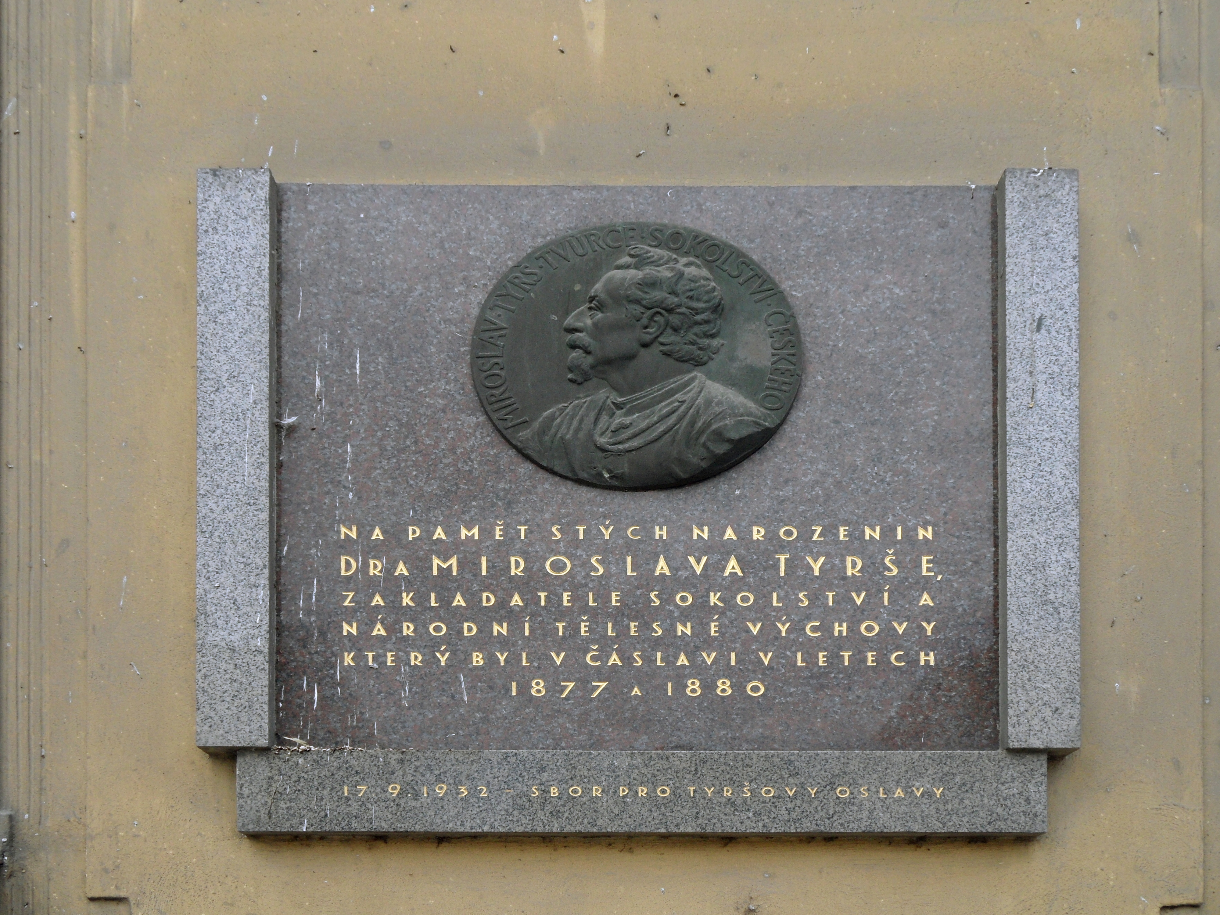 Čáslav, founder of “Sokol” Miroslav Tyrš: Memorial Plaque on Sokol House (Masarykova 471/34). Kutná Hora District, the Czech Republic.